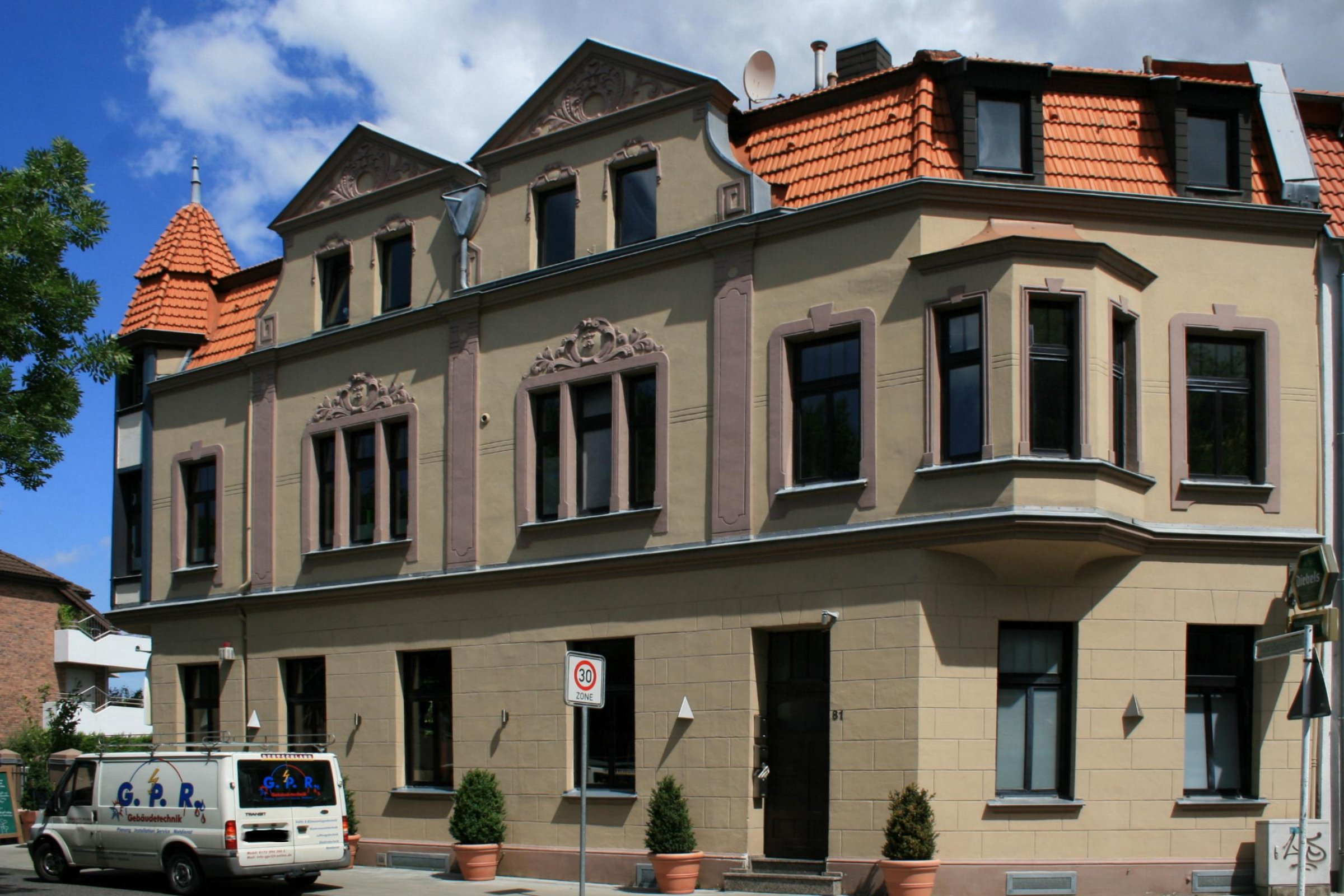 Cultural heritage monument No. G 002 in Mönchengladbach